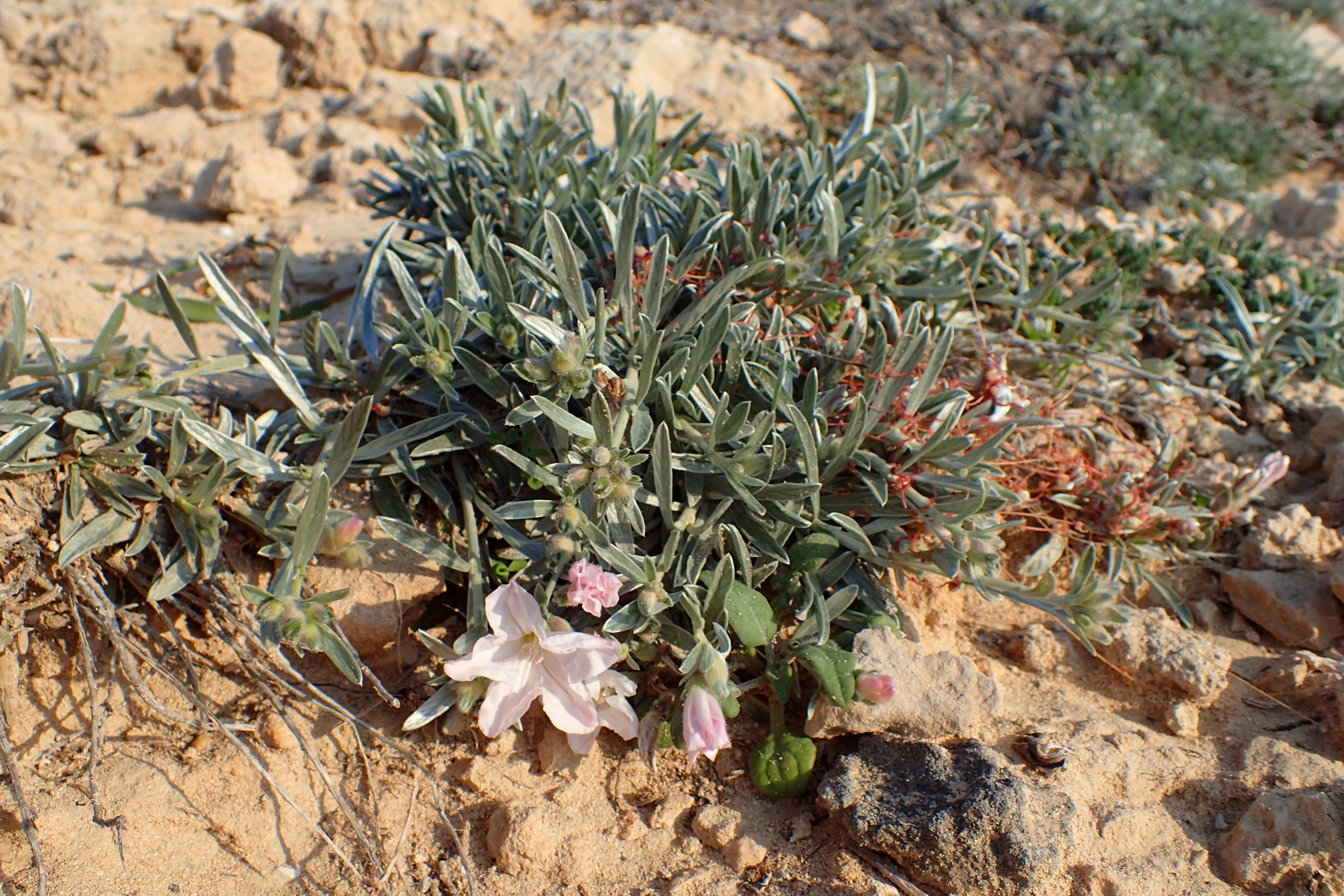 Convolvulus oleifolius in Kavo Gkreko, Cyprus